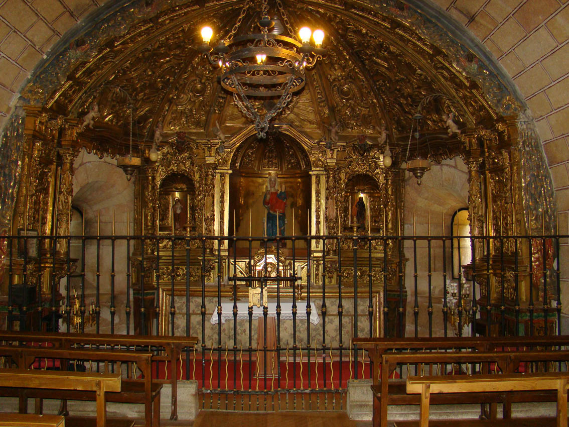 San Vicente Church in Avila, Spain. Soterraña Chapel in the its crypt, with the sculpture of the Virgin, the patron of the town.